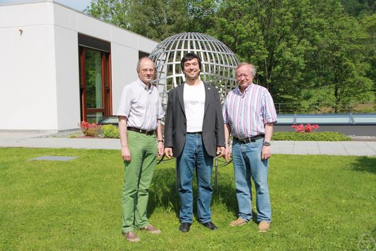 Von links: Hanns-Heinrich Langmann, Peter Wagner, Hans-Dietrich Gronau, Trainings- und Abschlussseminar Internationale Mathematikolympiade 2012, Oberwolfach